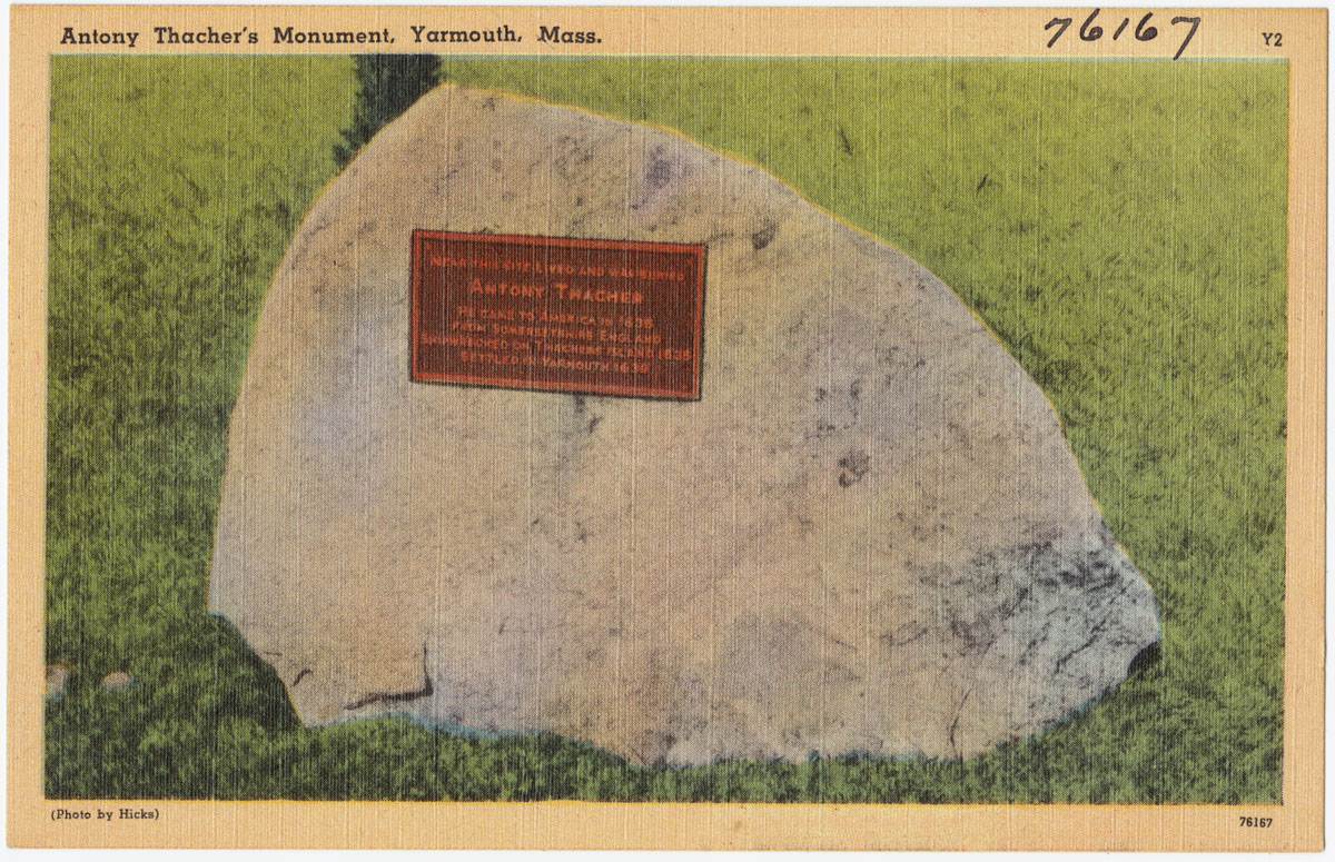 Accession No.: 06_10_001894 Subject: Yarmouth (Mass.) Cape Cod (Mass.) Front Caption: Antony Thacher's Monument, Yarmouth, Mass. Back Caption: Near this site lived and was buried Antony Thacher. He came to America in 1635 from Somersetshire, England. Shipwrecked on Thacher's Island in 1635. Settled in Yarmouth, 1639. Publishing information: (Photo by Hicks) Pub. by H. L. Moore Co., West Yarmouth, Mass. Tichnor Bros. Inc., Boston, Mass. Format: postcard BPL Collection: Tichnor BPL Department: Print Department